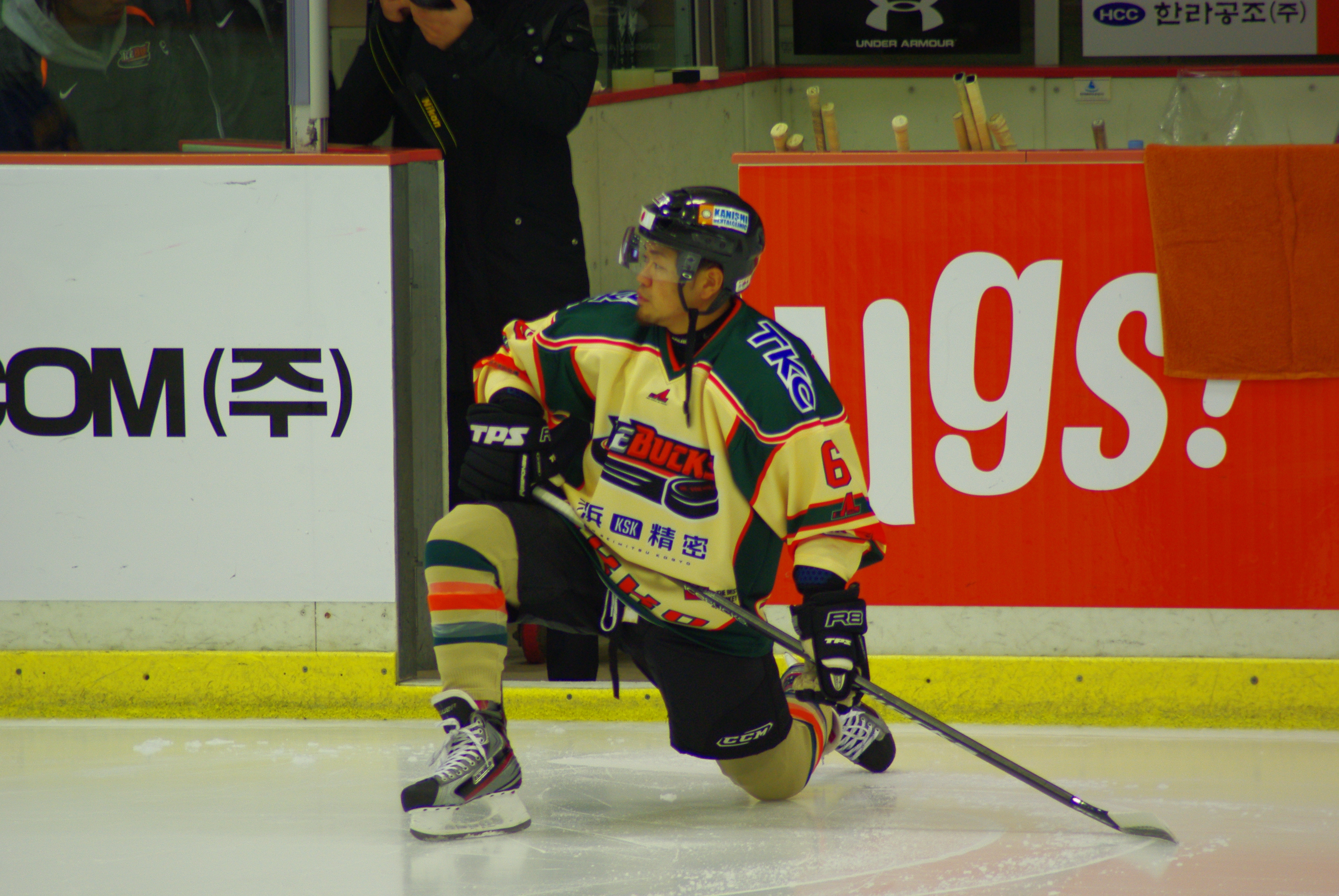 Sumida Yousuke from the nikko ice bucks